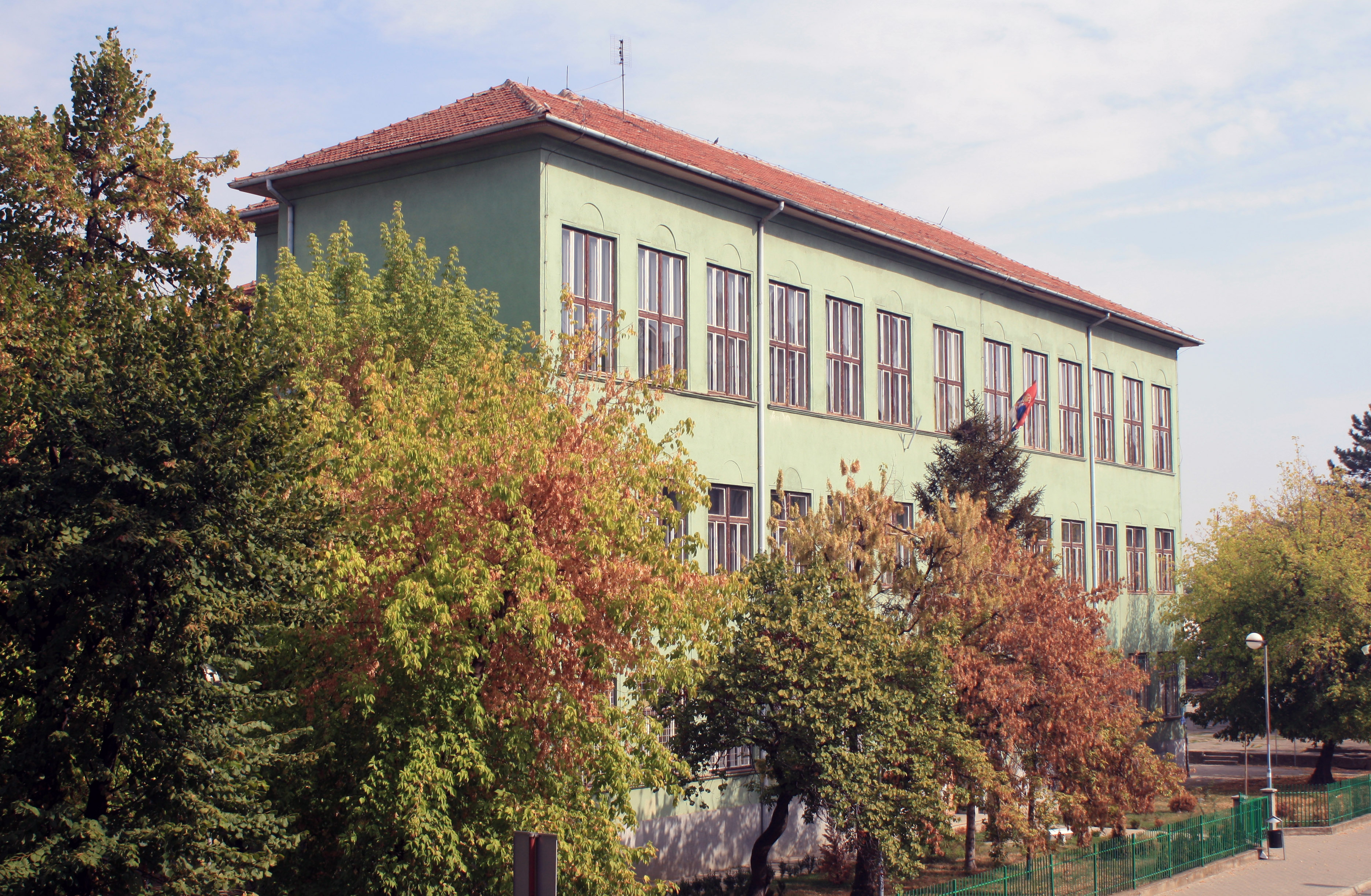 Medical high school "Dr Andra Jovanovic" in Šabac.